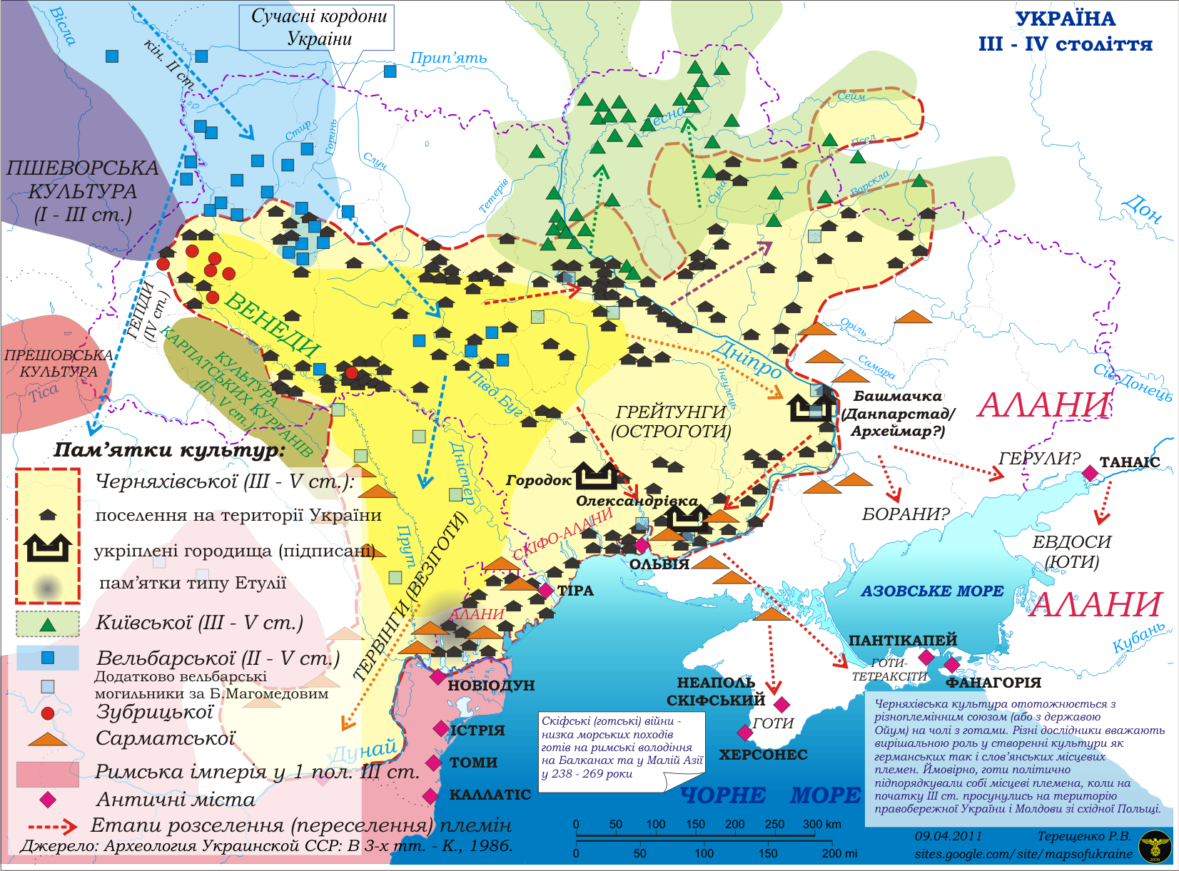 Land in Ukraine III - IV centuries. Chernjakhivs'ka culture